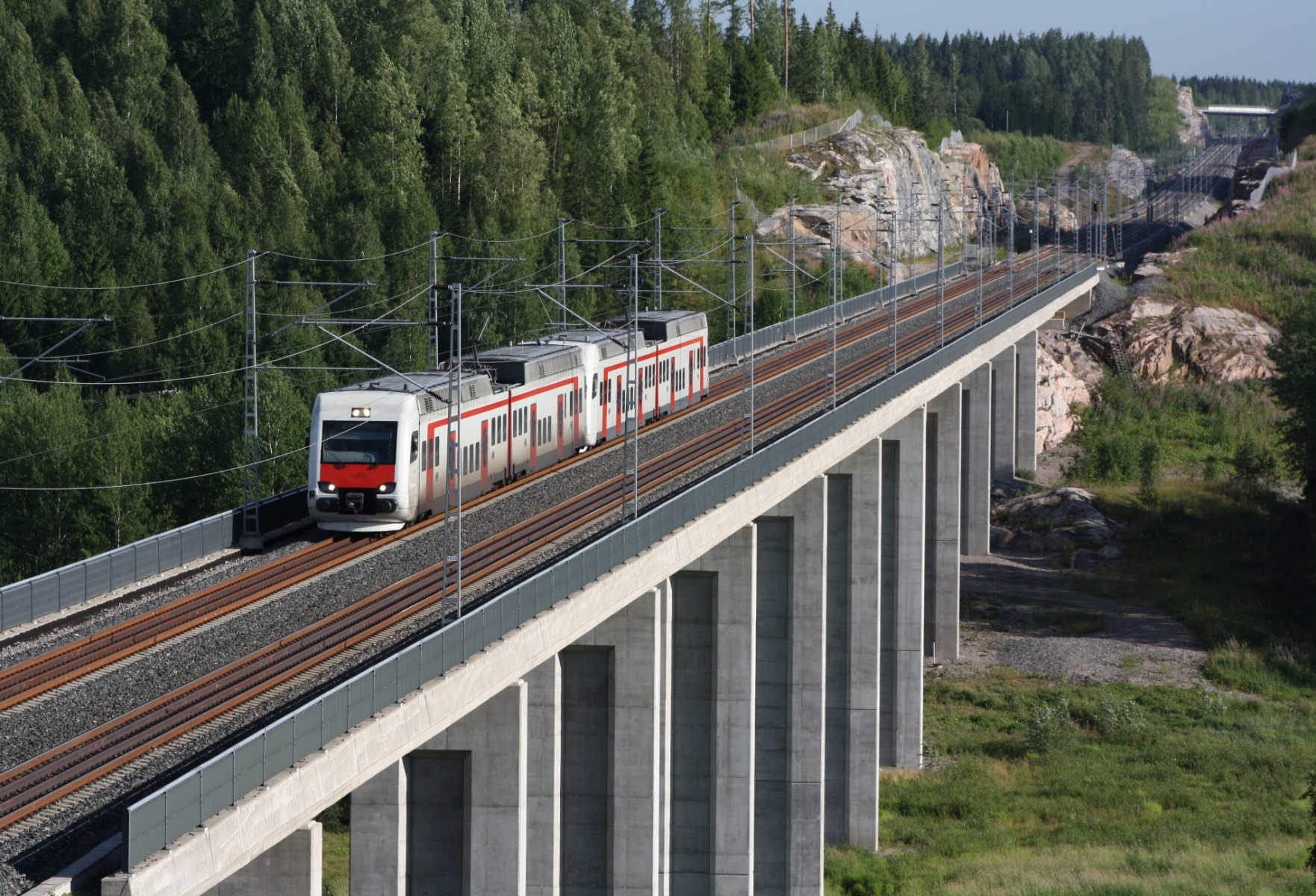 An Sm4 train crossing Luhdanmäki railway bridge on the Kerava–Lahti railway, Finland.